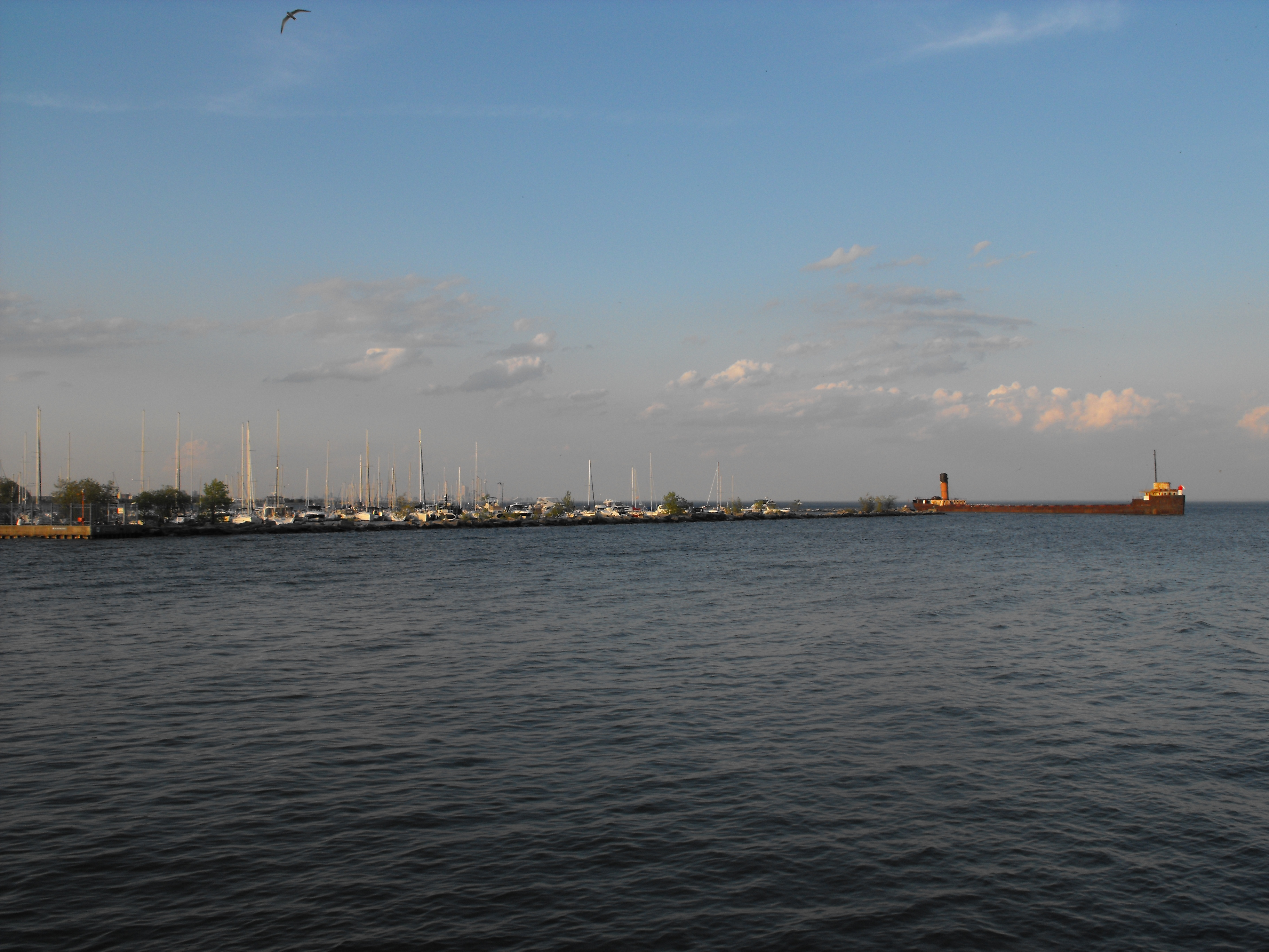 The Ridgetown view of the Port Credit Breakwater in Ontario, Canada. A view of Lake Ontario.